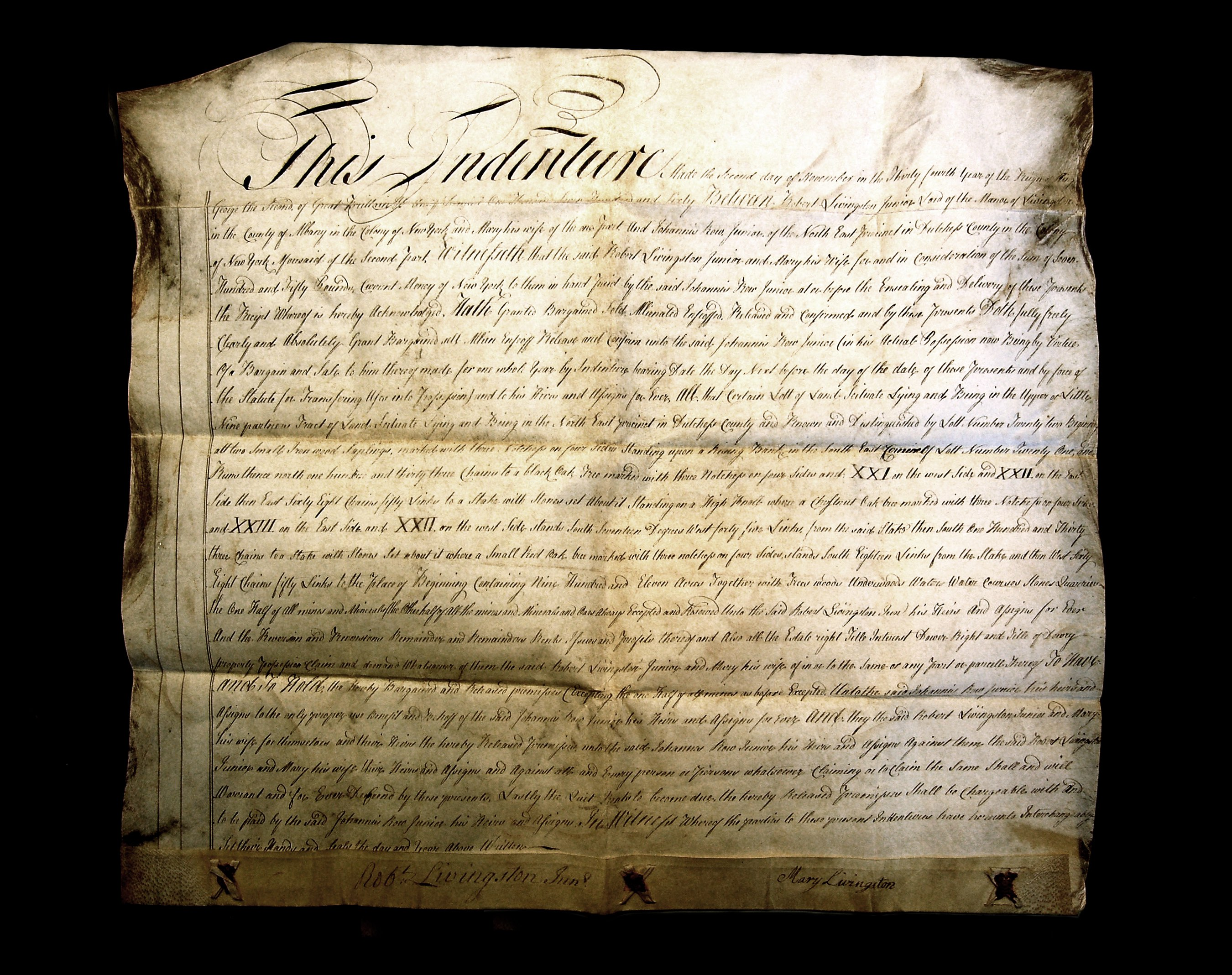 Legal document between grantor of 911 acres within Upper Nine Partners Patent in Dutchess County, NY, Robert Livingston, 3rd Lord of the manor and his wife and grantee Johannes Rowe, Jr. dated November 2, 1760.